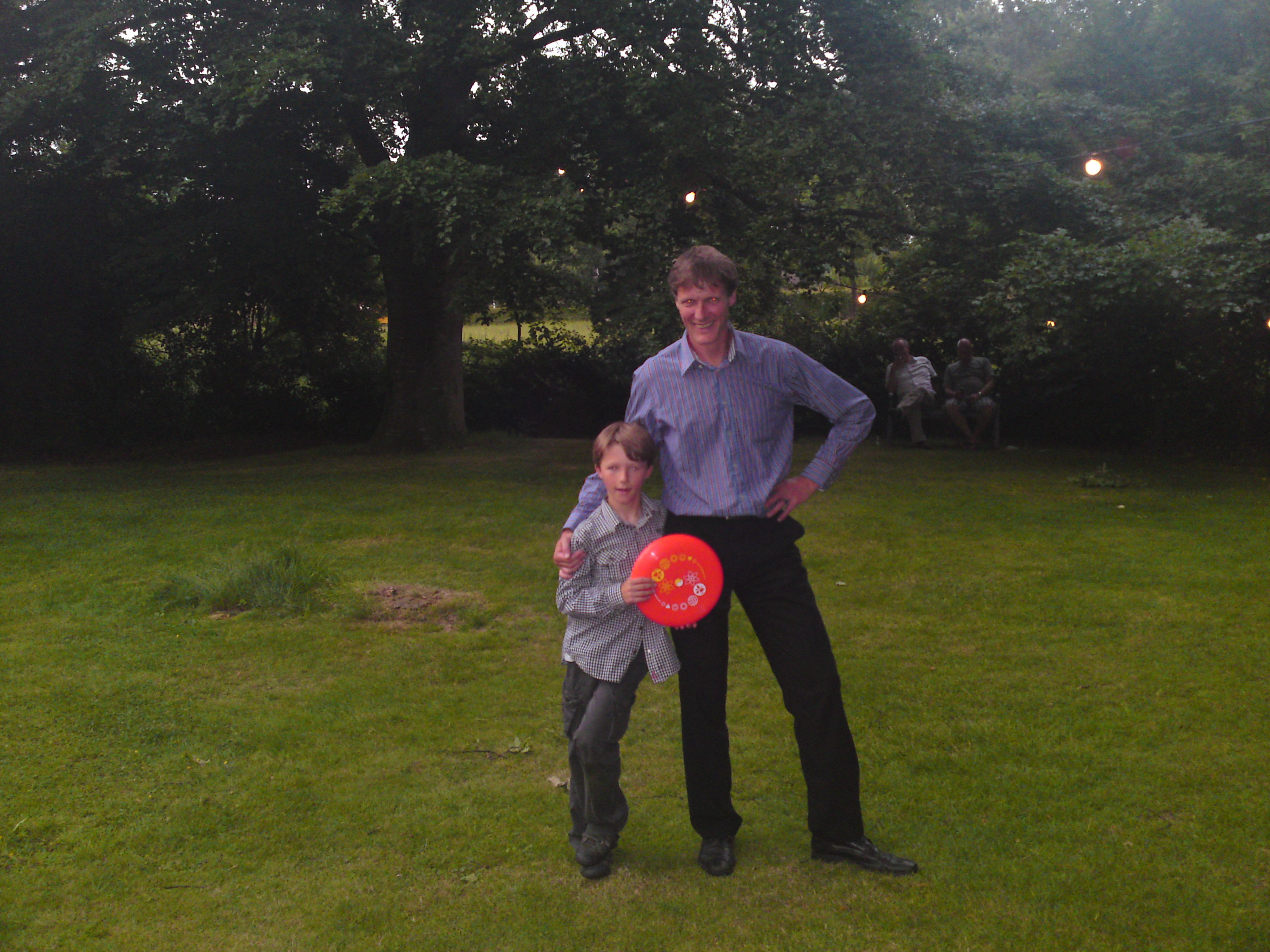 Ultimate frisbee player Jeroen Oort